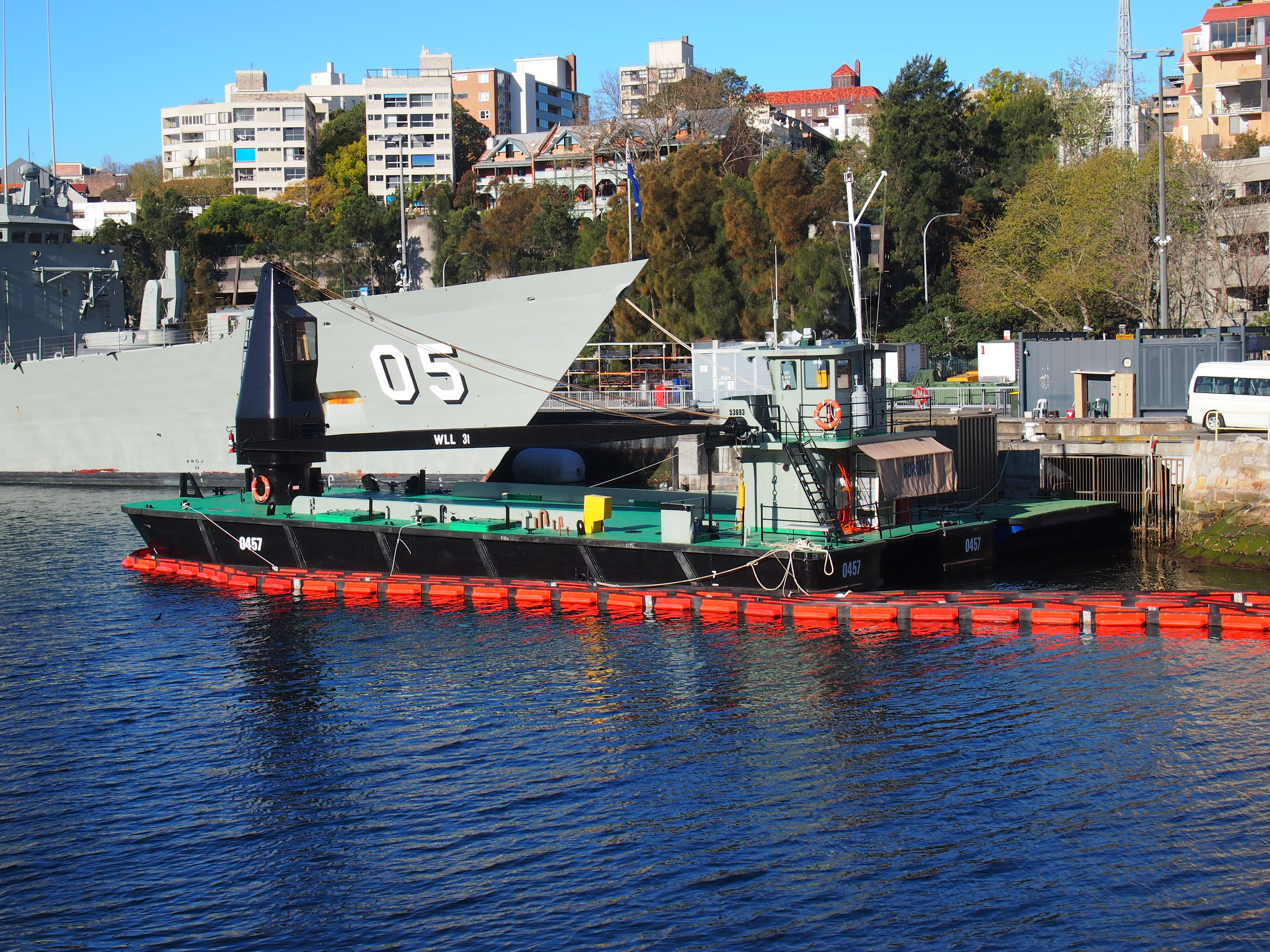 Crane stores lighter Boronia at Fleet Base East in September 2012